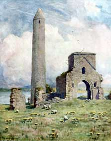 1925 painting of the 12th Century round tower and abbey on Devenish Island, Lough Erne From The Lordprice Collection This picture is the copyright of the Lordprice Collection and is reproduced on Wikipedia with their permission Source URL